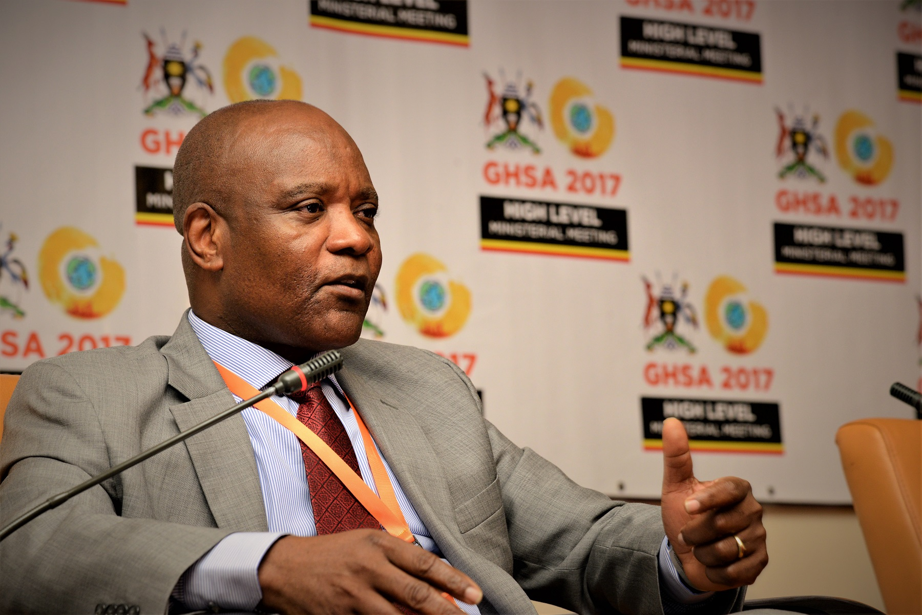 Africa CDC Director Dr. John Nkengasong in a panel discussion at the Global Health Security Agenda Ministerial Meeting in Kampala, Uganda.